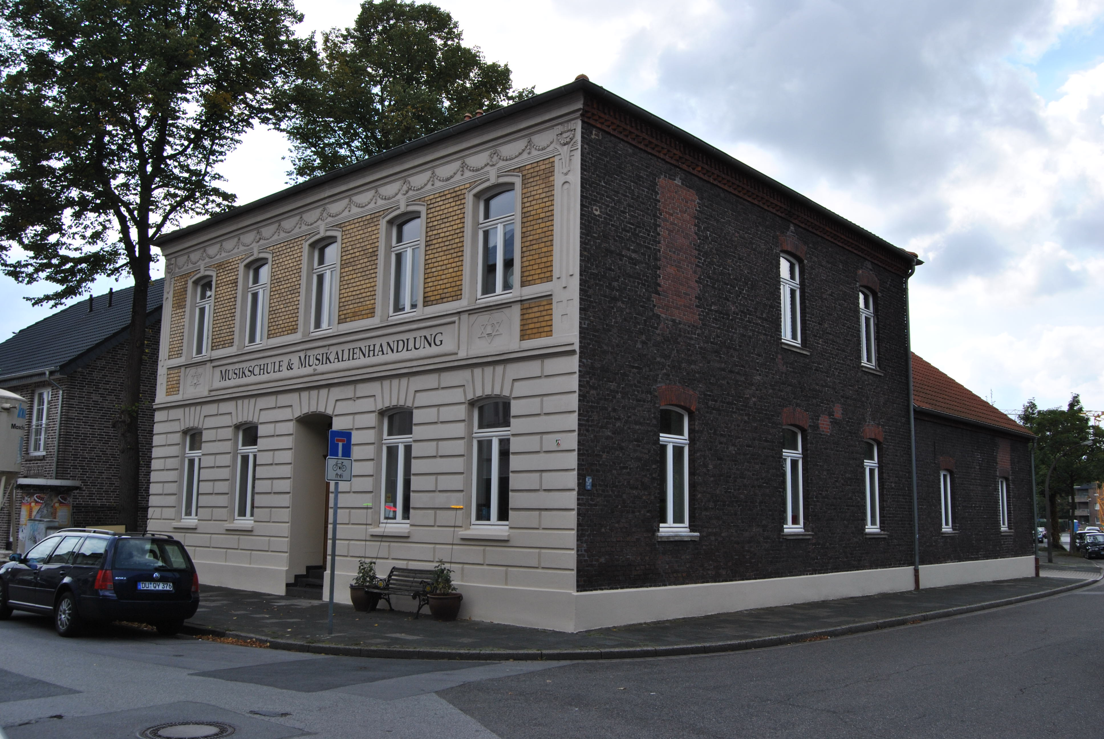 This photograph was taken with a Nikon D3000 This image shows a heritage building in Germany, located in the North Rhine-Westphalian city Duisburg. Wohngebäude mit Anbau, in dem heute eine Musikschule (Institut für Popularmusik) untergebracht ist, in Duisburg-Oestrum